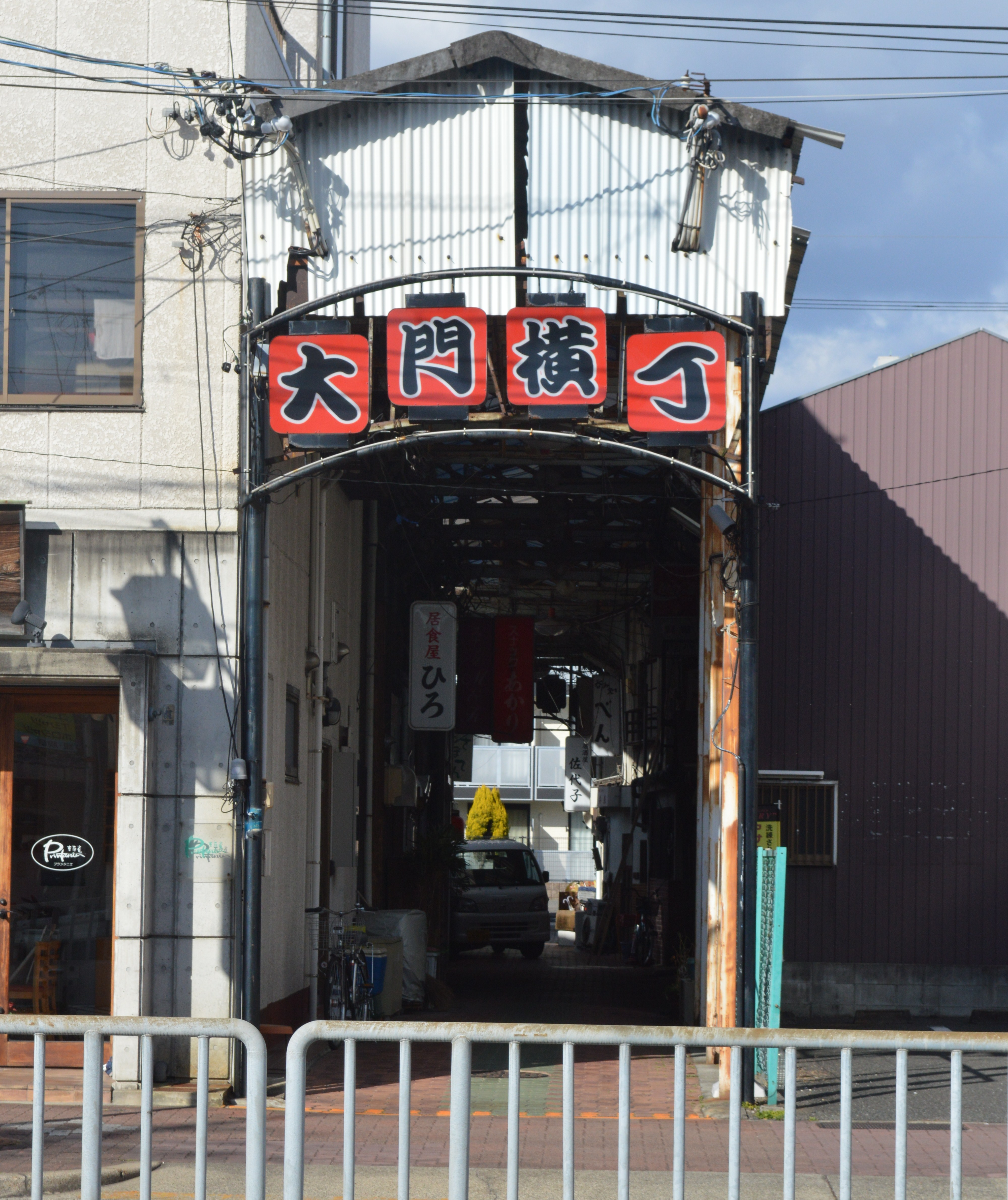 名古屋市中村区、中村大門。